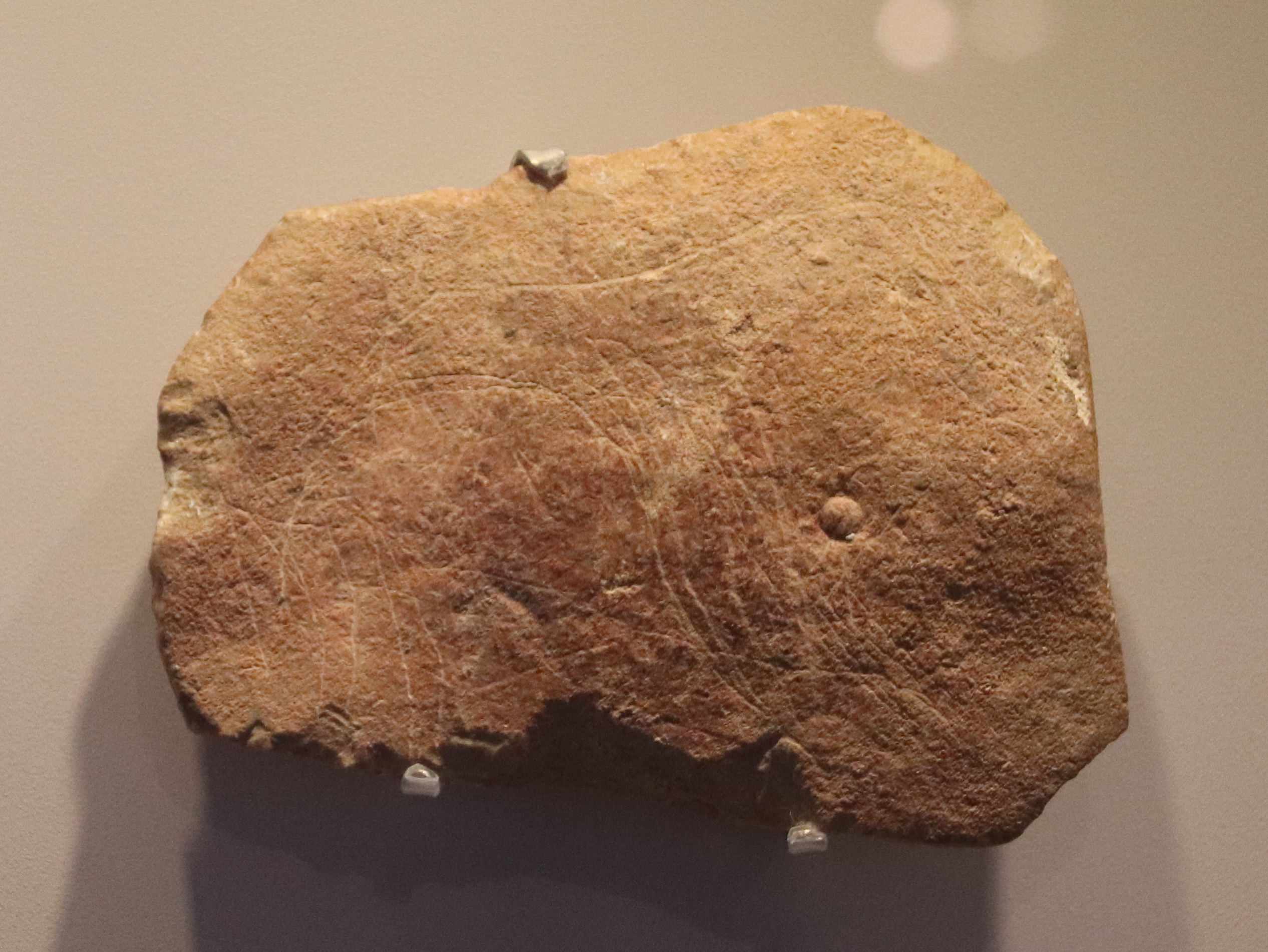 Stone Age Animal Carving, Hayonim Cave, 28000 BP (detail)